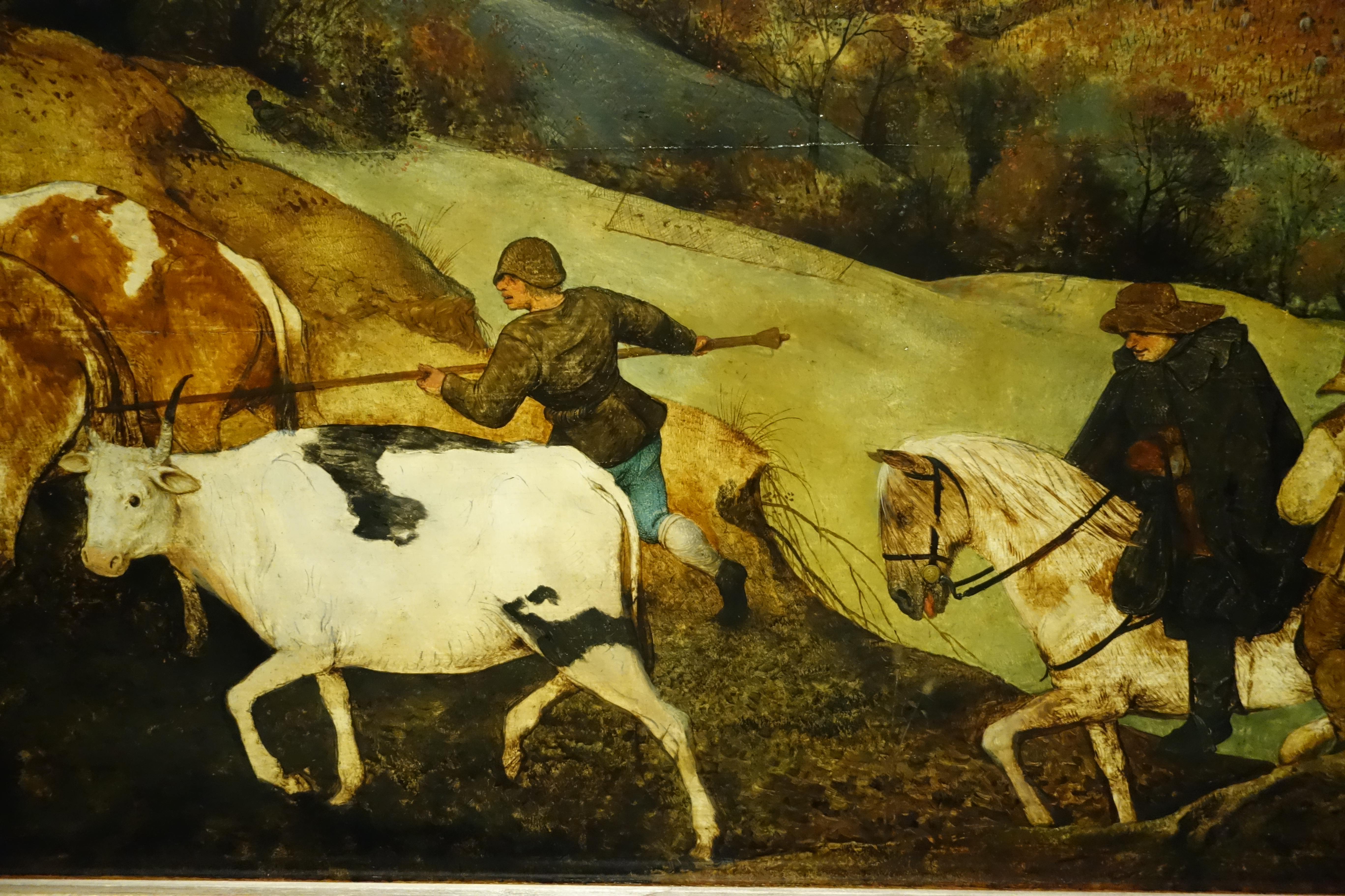 Pieter Bruegel the Elder, The return of the herd, 1565 - detail